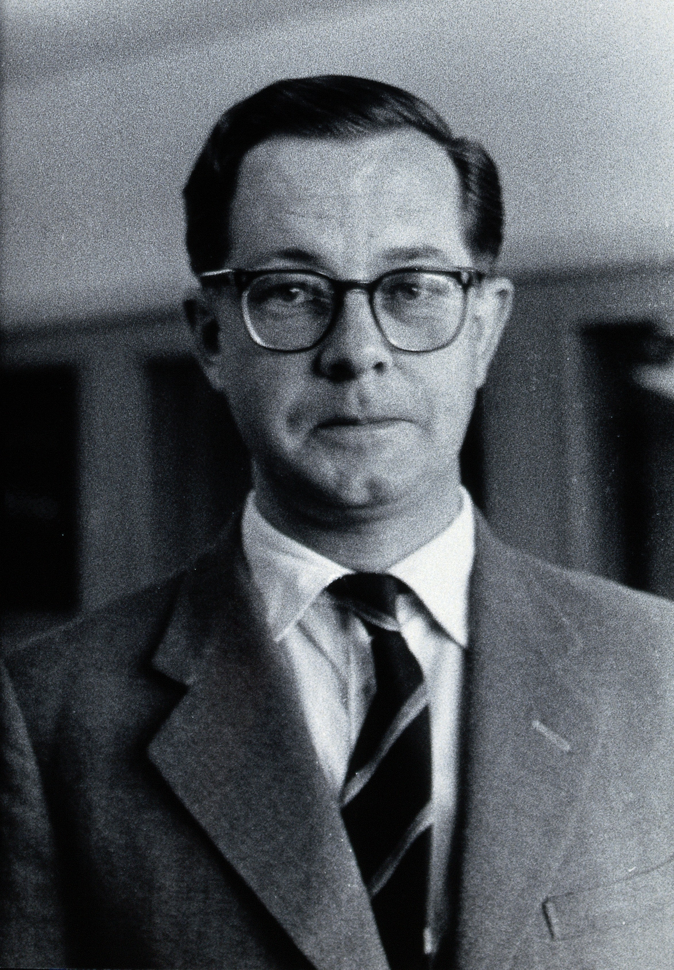 David F. Clyde. Photograph. Iconographic Collections Keywords: portrait photographs